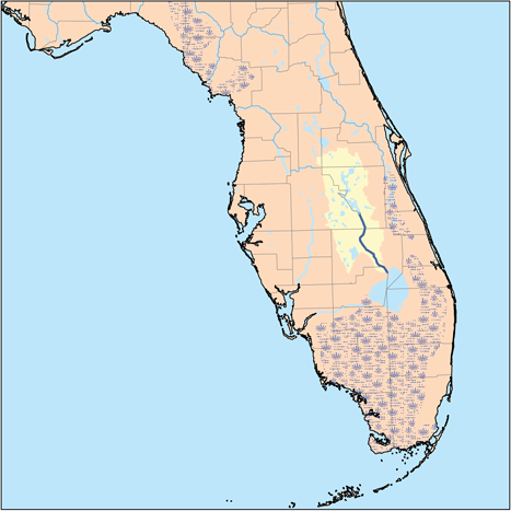 This is a map of the Kissimmee River watershed. I, Karl Musser, created it based on USGS data.